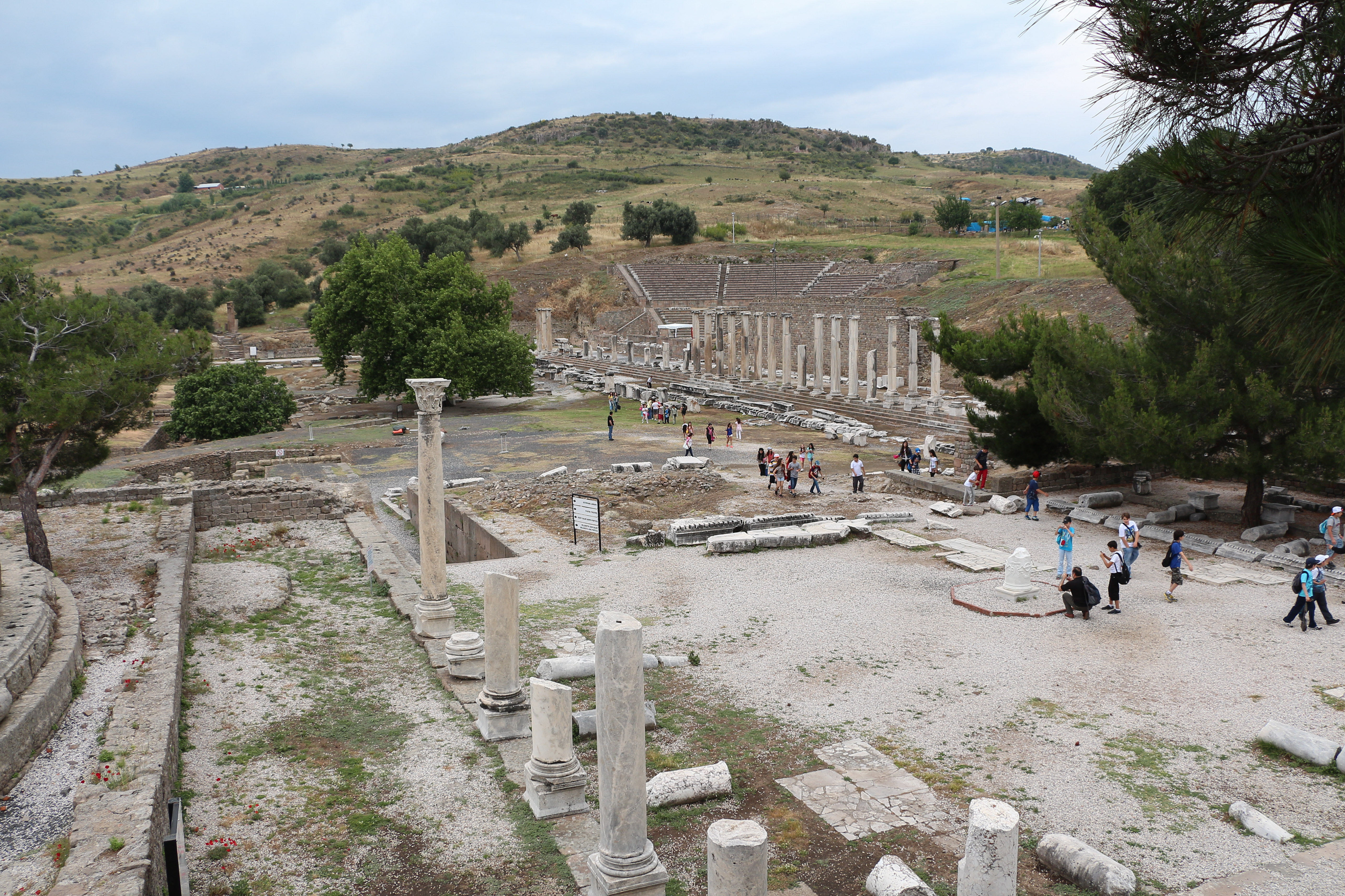 General view of the Sanctuary of Asclepius, Pergamon, Turkey